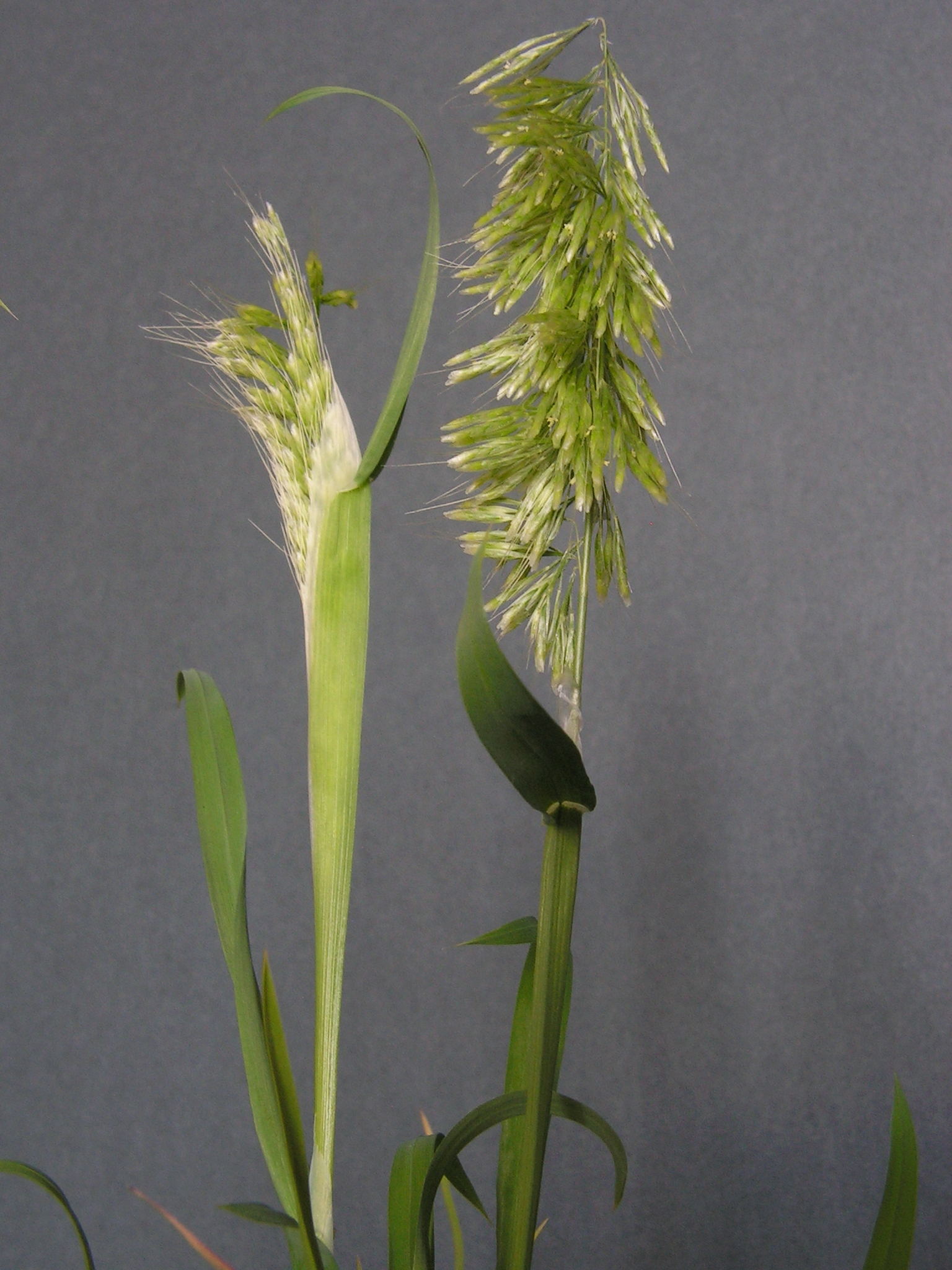 Lamarckia aurea (L.) Moench Height of the highest plant is appr. 24 cm.